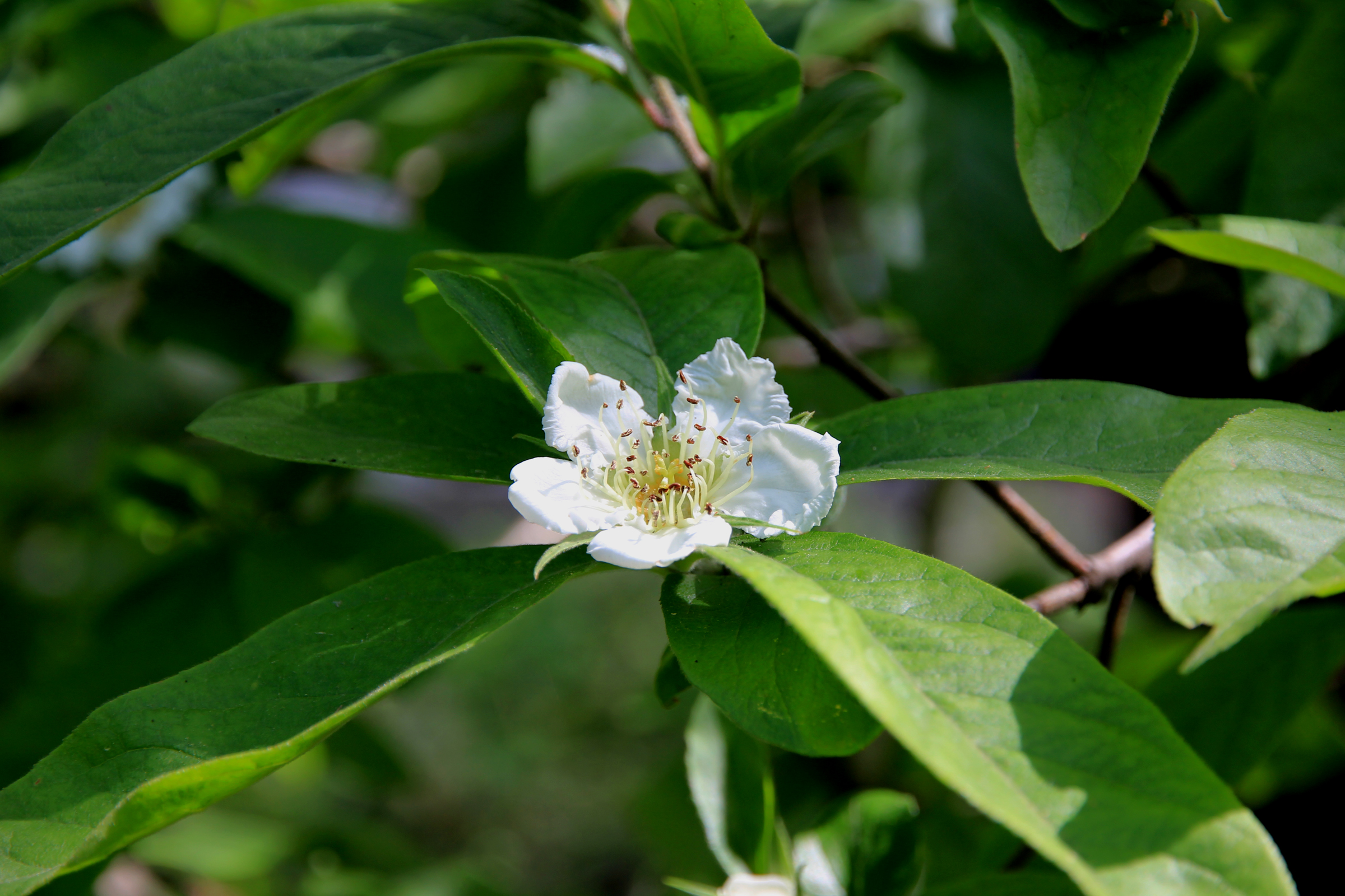 Flower of tree Mespilus germanica from the Botanical Gardens of Charles University, Prague, Czech Republic